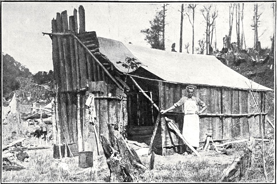 "A camp cook and his kitchen: a surveyor's camp in the bush at Little Wanganui, South Island." Auckland Libraries Heritage Collections AWNS-19110928-14-1, from the Auckland Weekly News, 29 September 1911